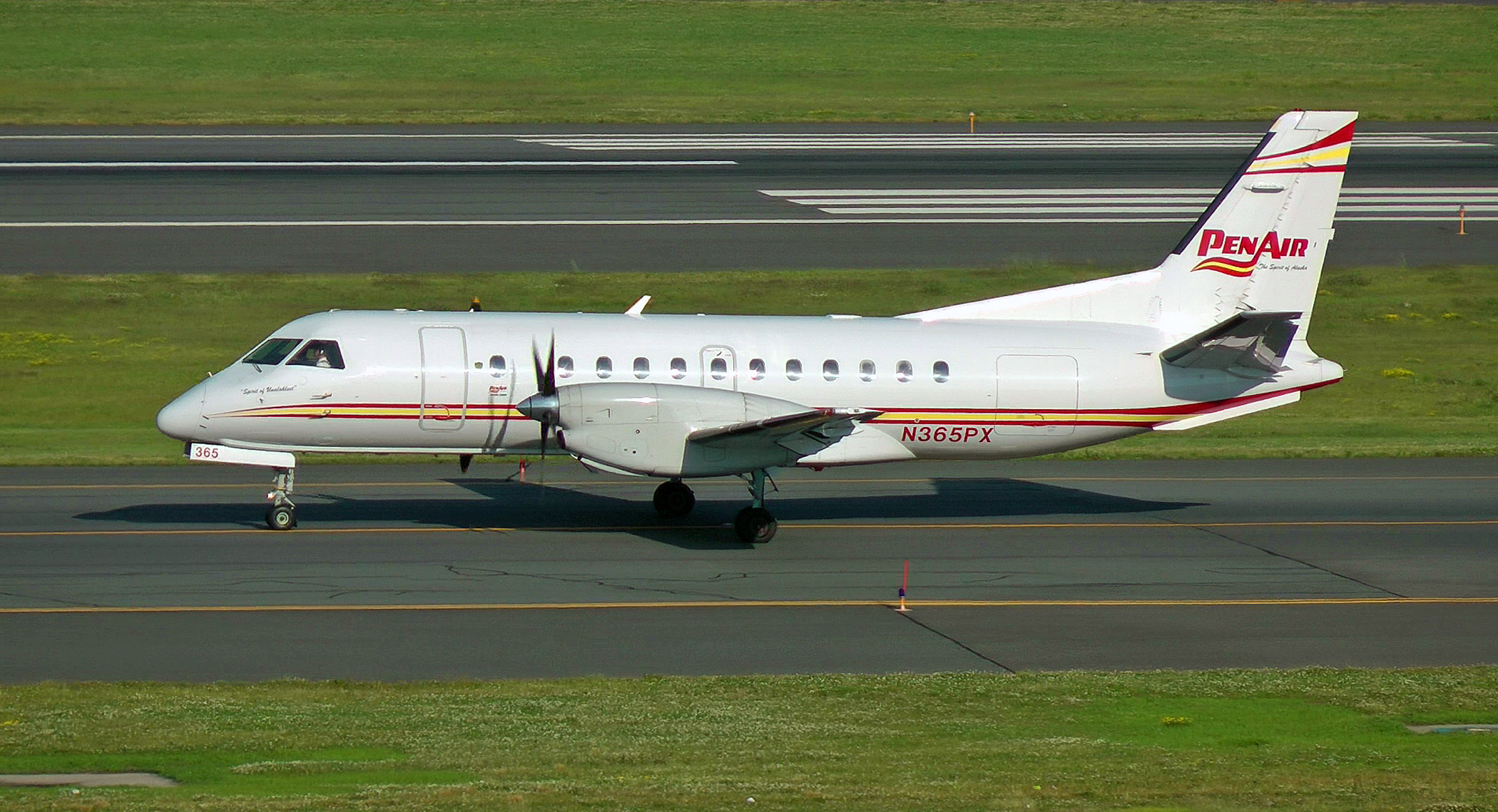 PenAir arrives at Logan Airport Boston, Massachusetts USA